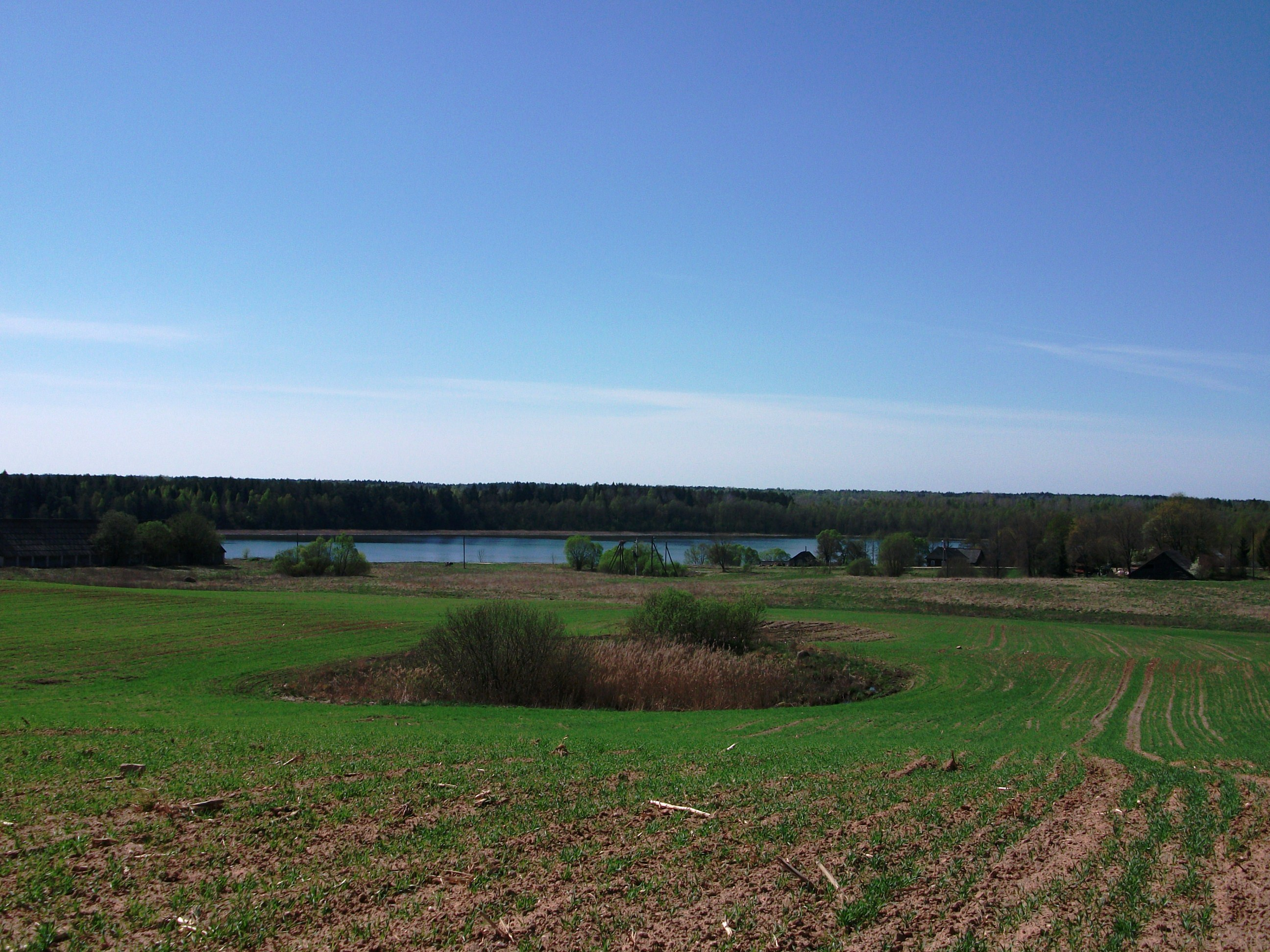 Verabyi Lake, Astraviec district, Belarus